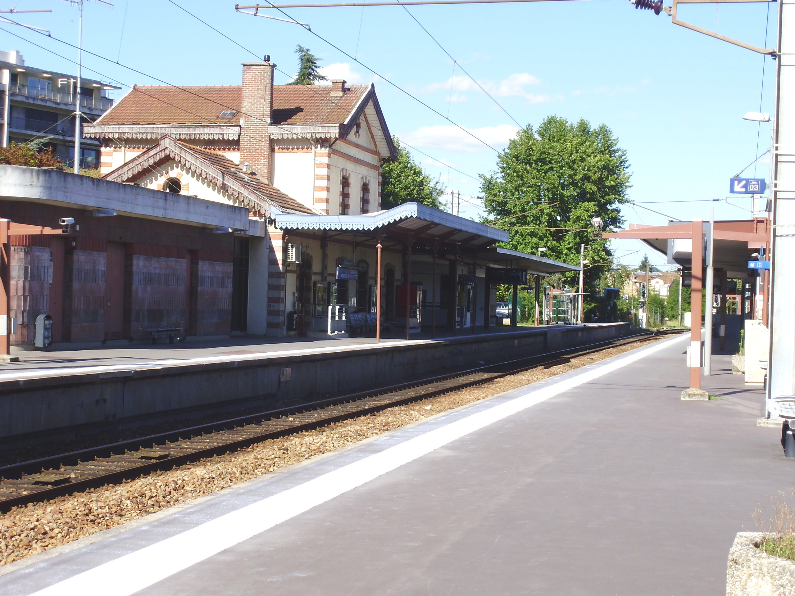 Garches - Marnes-la-Coquette station, in Garches, Hauts-de-Seine, France (view of the station building from the platform to Saint-Nom-la-Bretèche)